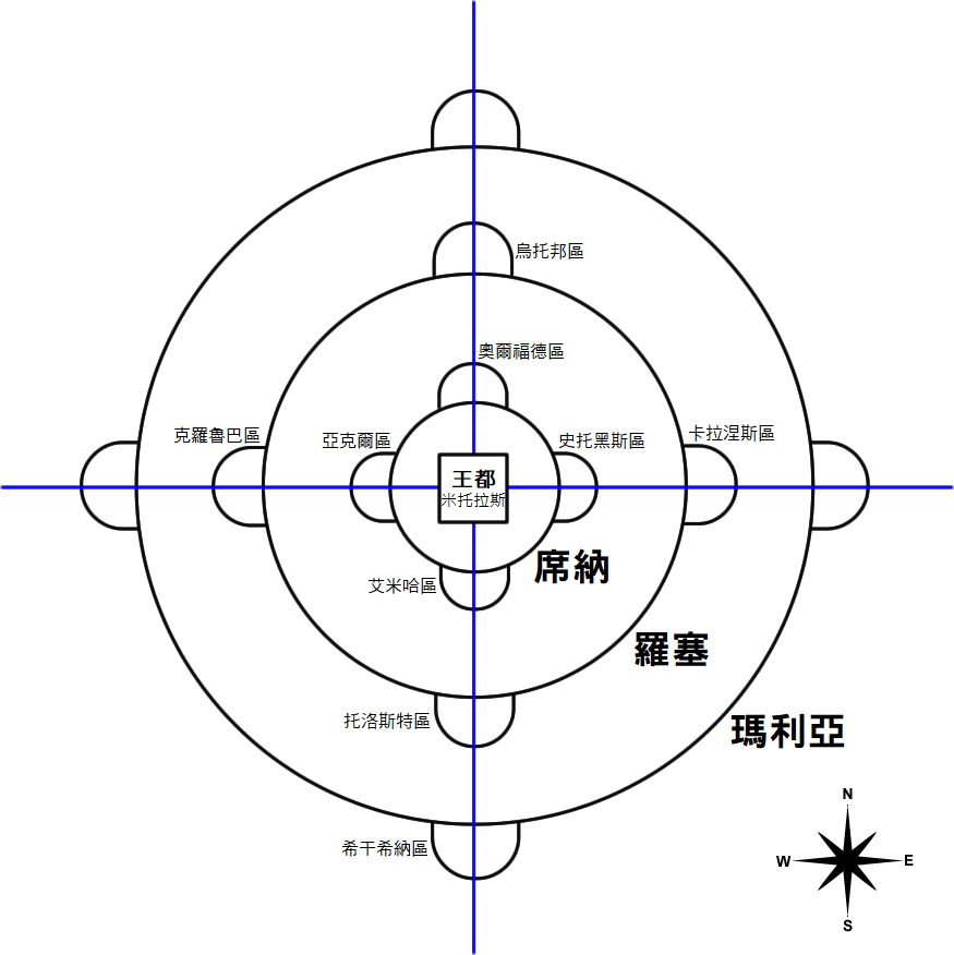 The Walls of Shingeki no Kyojin (Traditional Chinese)